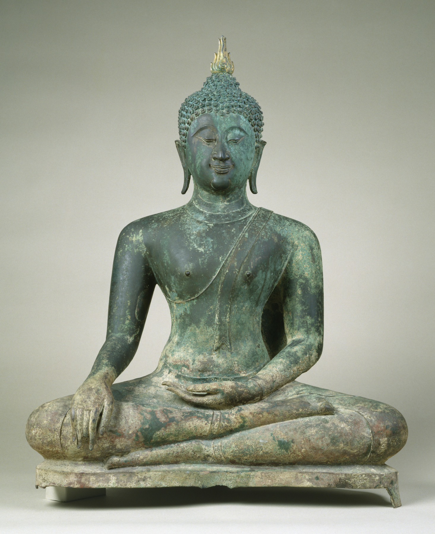 In parts of Thailand, a Buddha image is traditionally consecrated at dawn. Wax covering the eyes of the image is removed, and the sun's first rays, breaking through the eastern entrance doors of the temple, strike the golden image. Meanwhile monks chant a verse proclaiming that one who knows the truth as taught by the Buddha can ward off evil, just as the dawn drives away darkness and fills the air with light. The consecration of the image is a reenactment of another event that occured at dawn: Sakyamuni Buddha's final victory over evil some 2500 years ago in India. The Buddha at this time of his victory is the subject of this image, and of almost every primary image in the monastaries of Thailand. The Buddha's right arm is lowered in the gesture that brought forth a flood that carried away the evil forces. The waters of the oceans comprimised this flood, and they were equivalent to the good deeds the Buddha had performed in his past lives. The Thai of Sukhothai developed a new curvilinear style of image in the 14th century, which is now looked upon as classic.